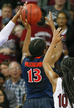 Photo by Chris Gillespie